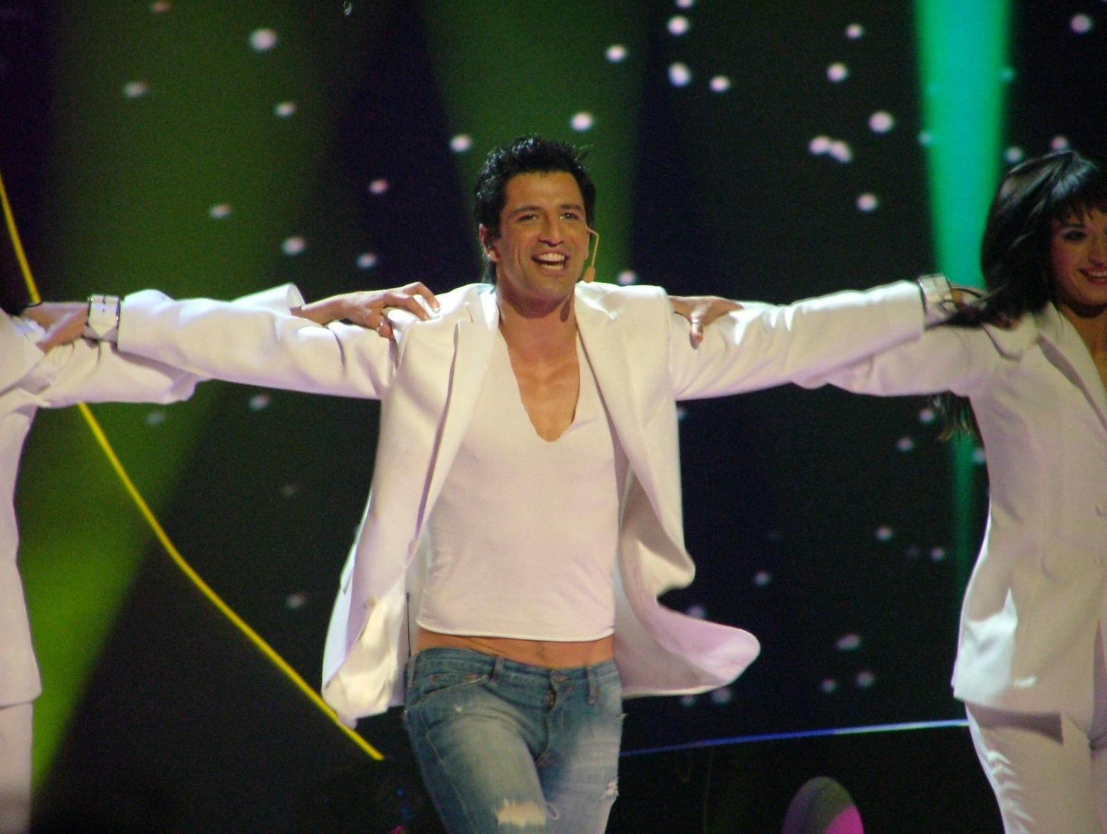 Sakis Rouvas in the Eurovision Song Contest 2004 - Istanbul (Turkey)